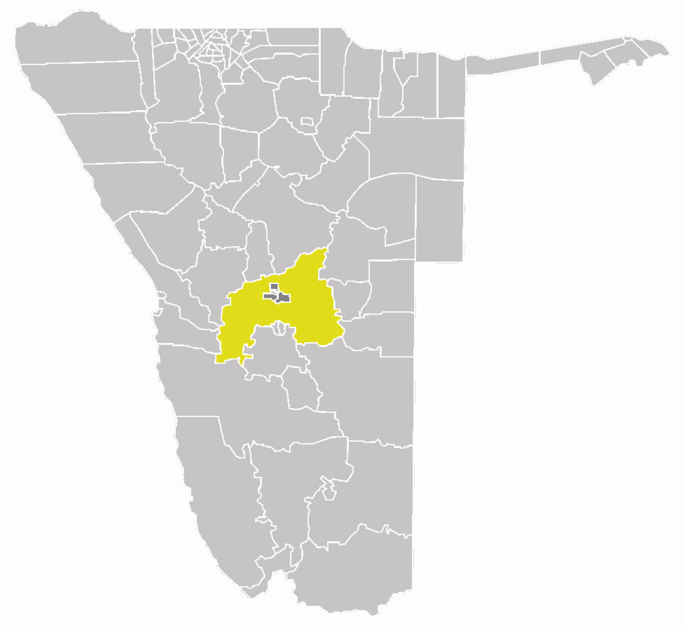 map of the Windhoek Rural constituency within the Khomas region, Namibia